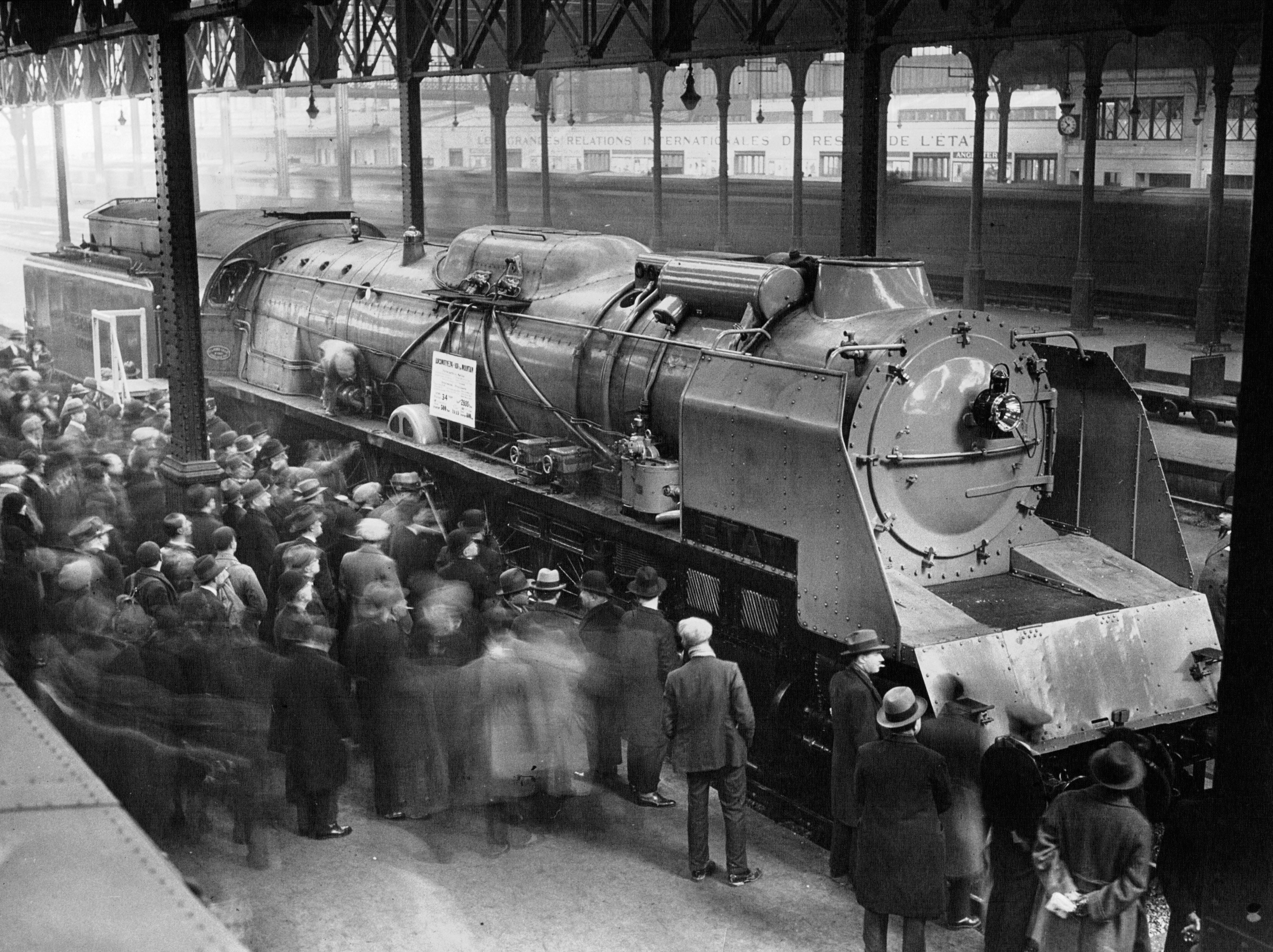 Steam locomotive super mountain shown gare de Paris Saint-Lazare in 1933.